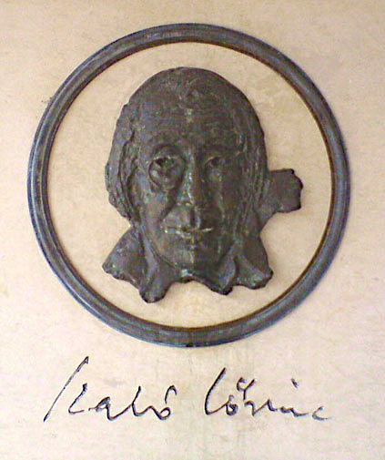 Péter Szanyi: Lőrinc Szabó. Miskolc, Hungary